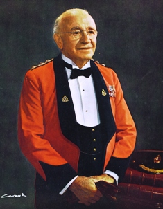 HCOl RS (Sam) McLaughlin, The Ontario Regiment RCAC, c. 1960